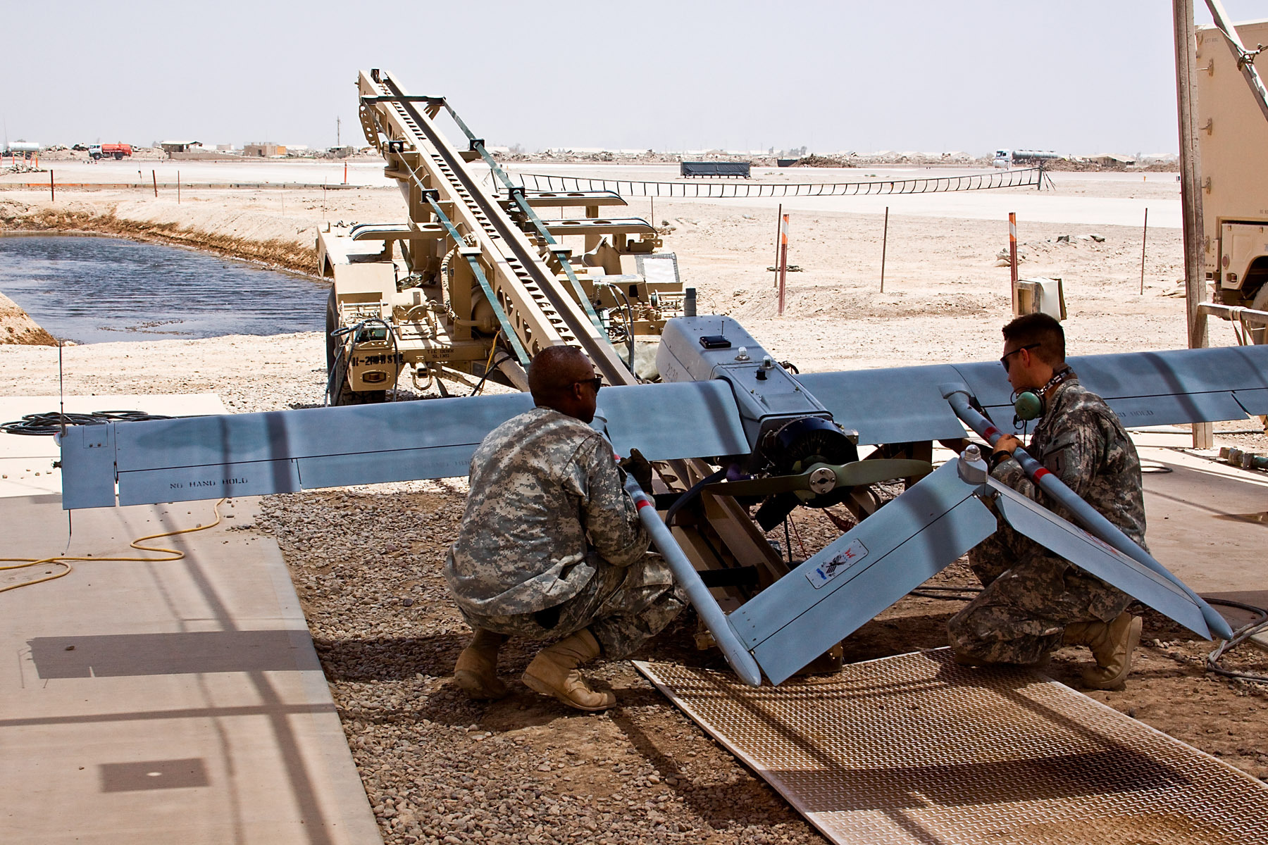 Prepping for a launch, Sgt. Donald Melvin, left, an unmanned aerial vehicle mechanic, from Columbus, Miss., a 1st Infantry Division Soldier attached to 2nd Battalion, 1st Air Cavalry Brigade, 1st Cavalry Division, Multi-National Division - Baghdad, and Spc. Stephen Cantrell, right, from Wichita Falls, Texas, a UAV mechanic in 1st Inf. Div., also attached to the 1st ACB, set a UAV onto a ramp that will help propel the aircraft into flight at Camp Taji, Iraq, north of Baghdad, June 25.